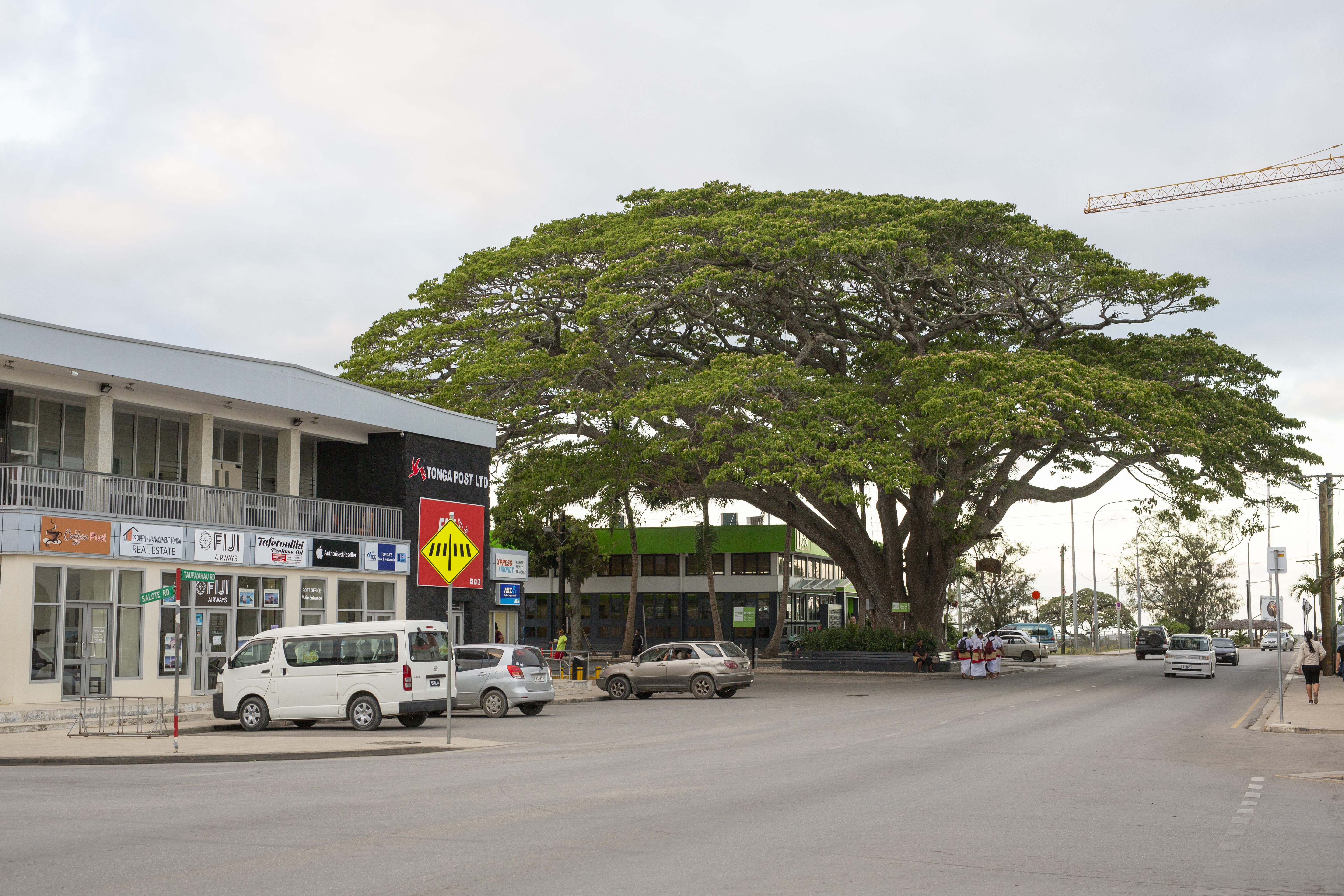 Nuku'alofa, Tonga